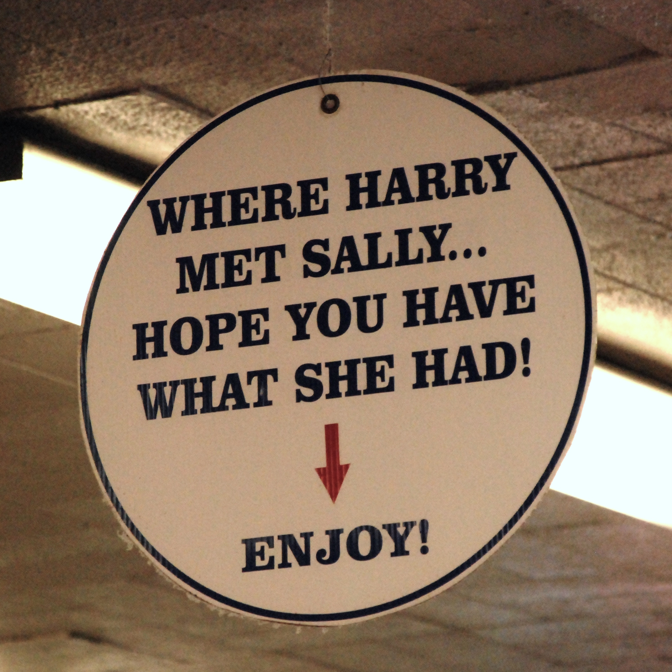 Where Harry meets Sally....